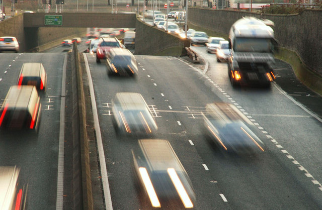 The Westlink, Belfast (9). See 1587230. At 15.53, as the winter solstice approaches, the light was fading over the Westlink. The view is from the Peter's Hill flyover towards the Divis Street on-slip and the M1. Continue to 1618246.